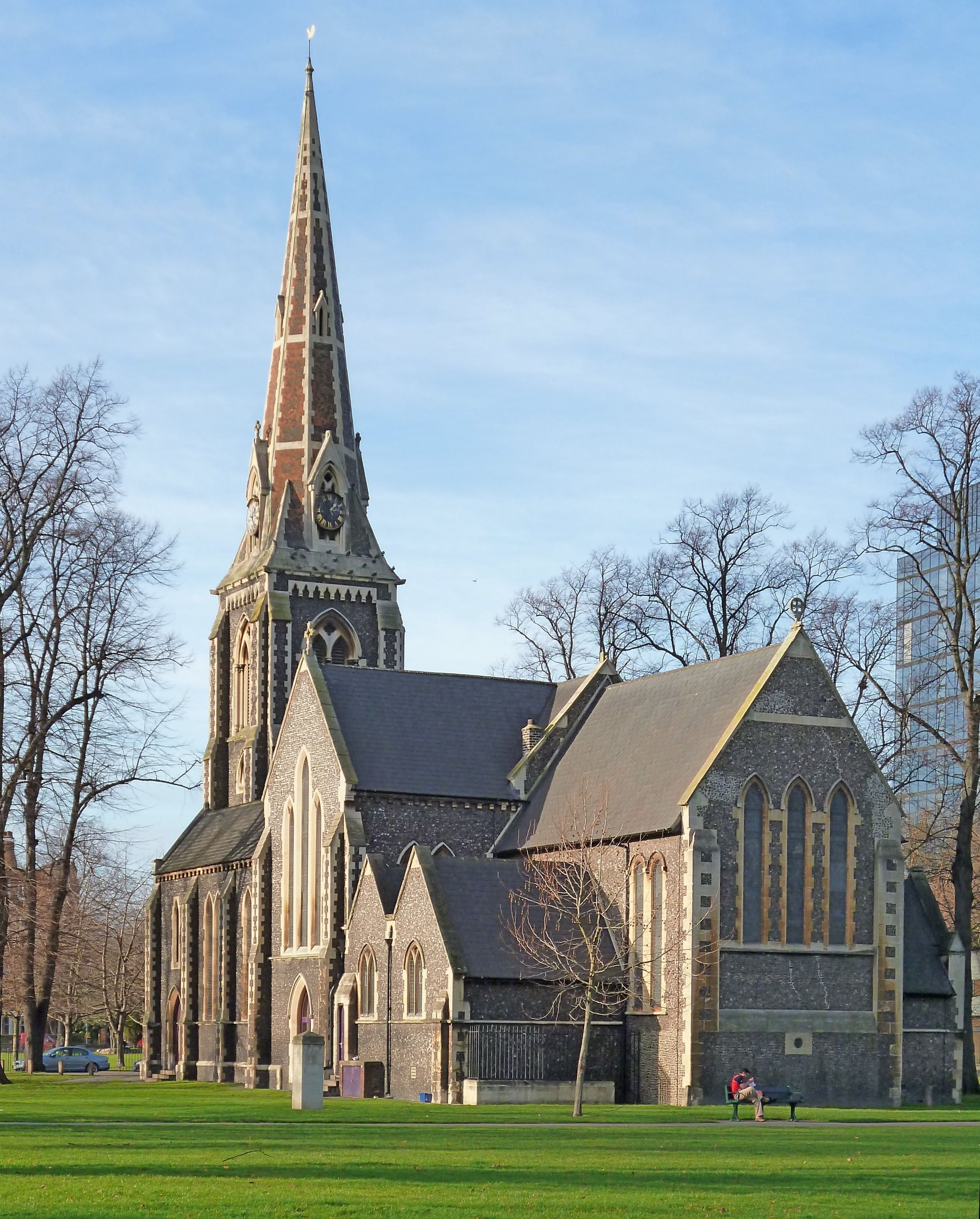 A high resolution photograph of Christ Church, Turnham Green, Chiswick, London W4, England.The image has been modified slightly in Photoshop to remove bird detritus from the roof, and to make a correction to the vertical perspective, but is otherwise unchanged.